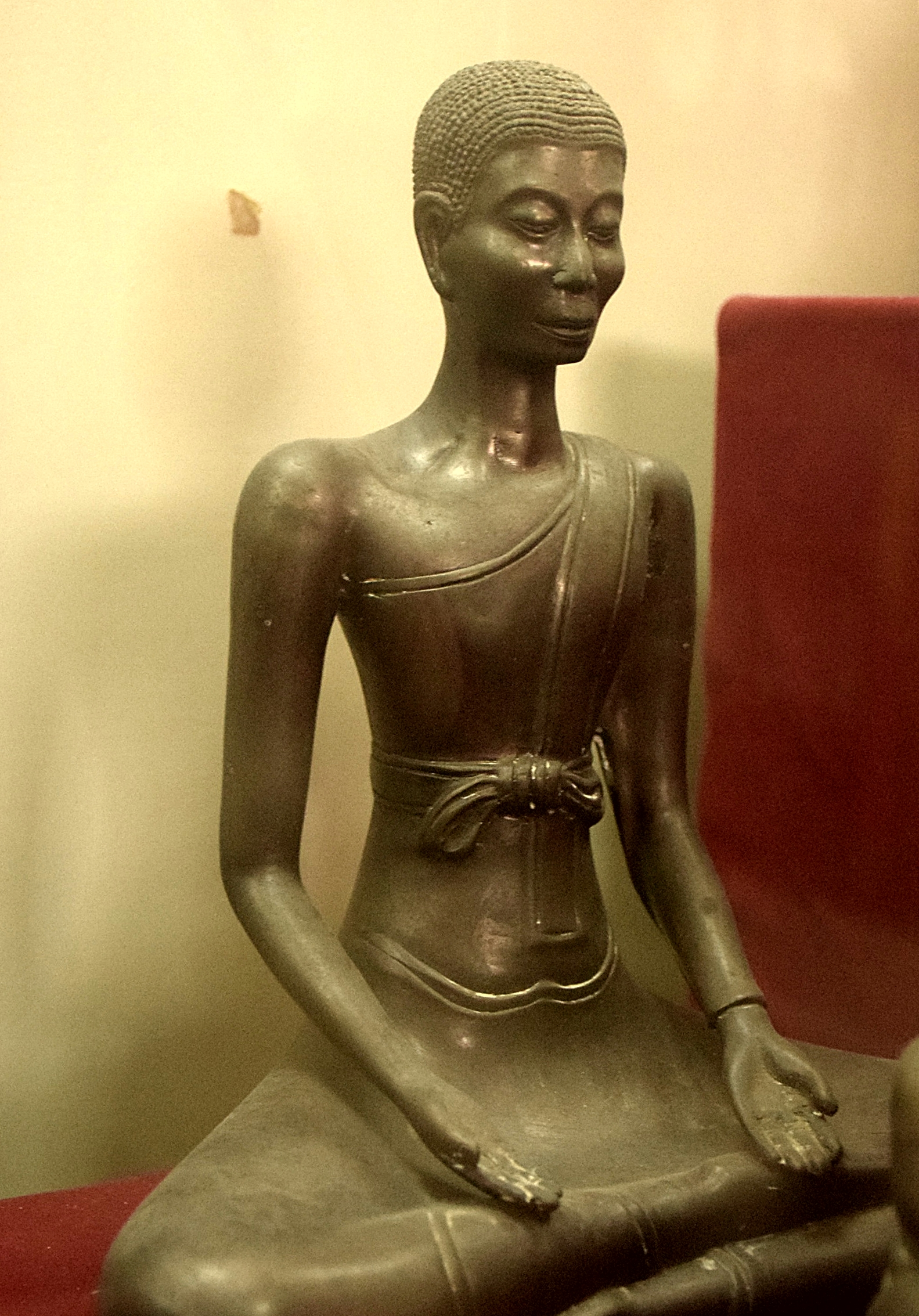 Chao Phra Fang the leader of MueangSawangkaburi